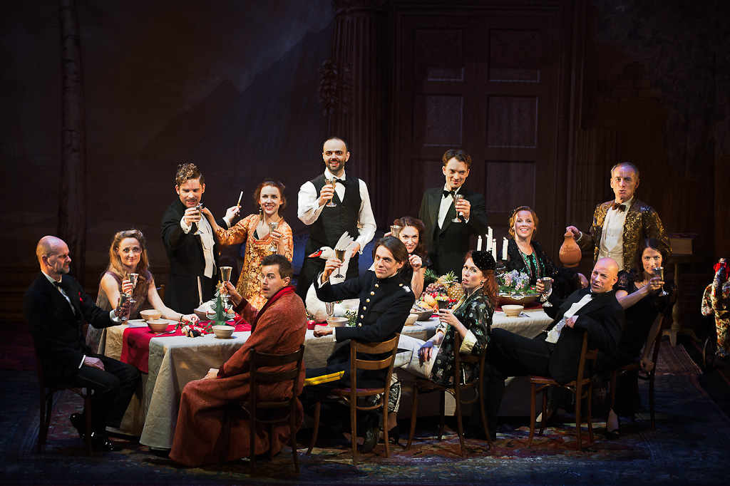 Christmas Production at the Royal Dramatic Theatre in Stockholm.